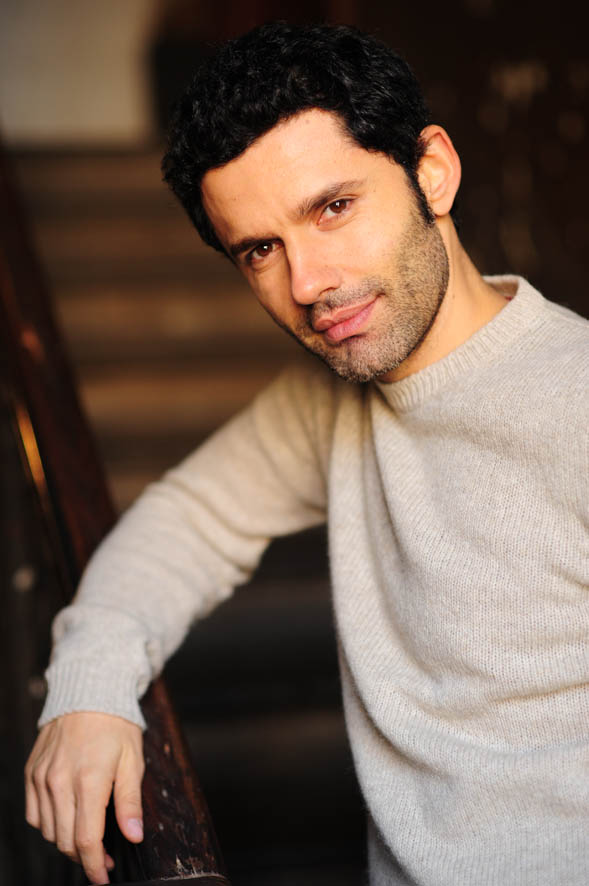 Foto profilo